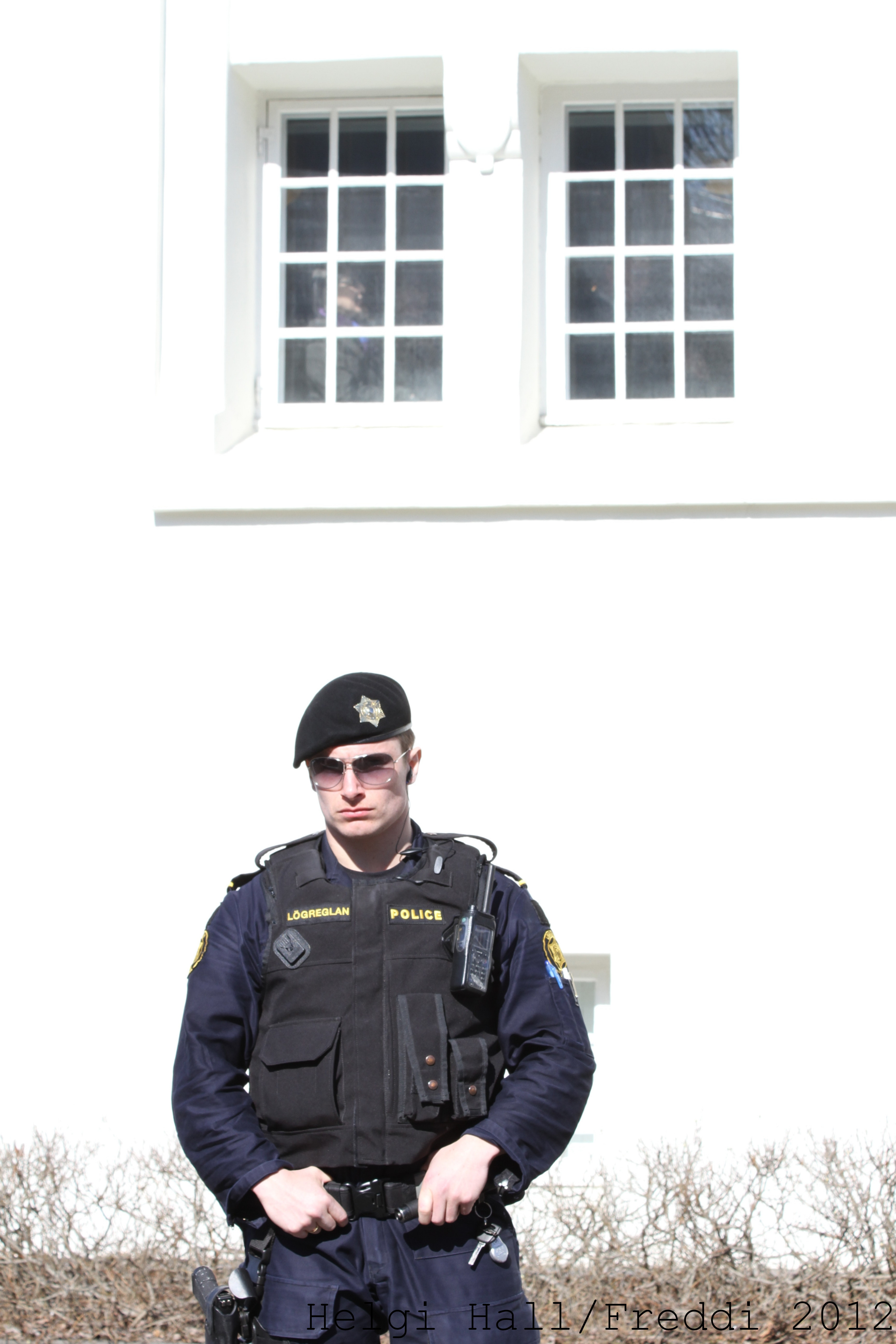 The Icelandic National Police (Icelandic: Ríkislögreglan) is the main police force of Iceland. It is responsible for law enforcement on all Icelandic territories except at sea where the Icelandic Coast Guard enforces the law. The two services assist each other as needed.